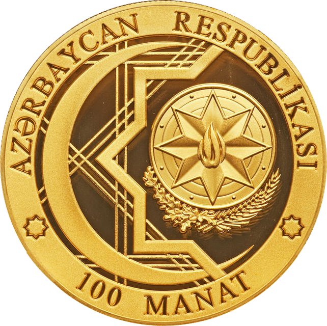 Commemorative coin of Azerbaijan